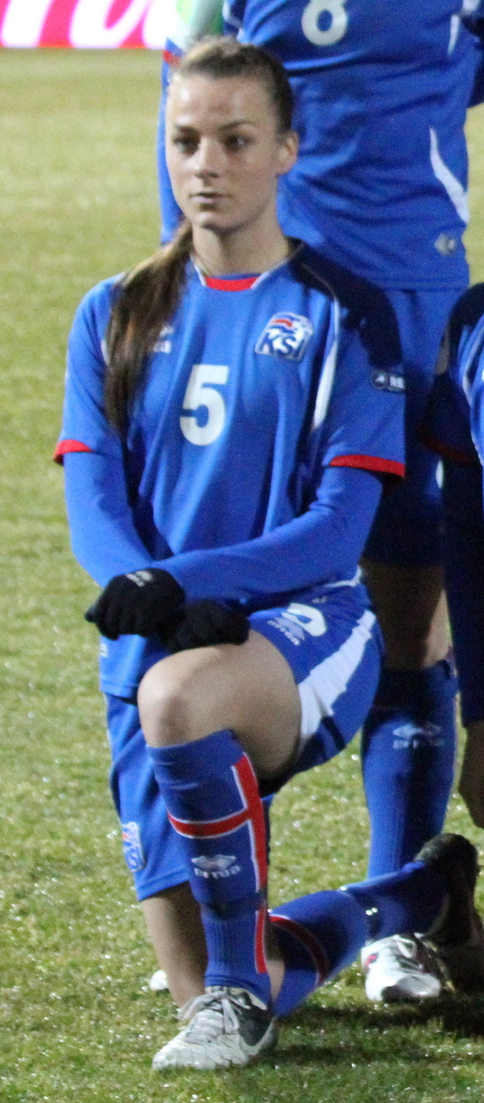 Hallbera Guðný Gísladóttir prior to Iceland-Ukraine 25/10/2012